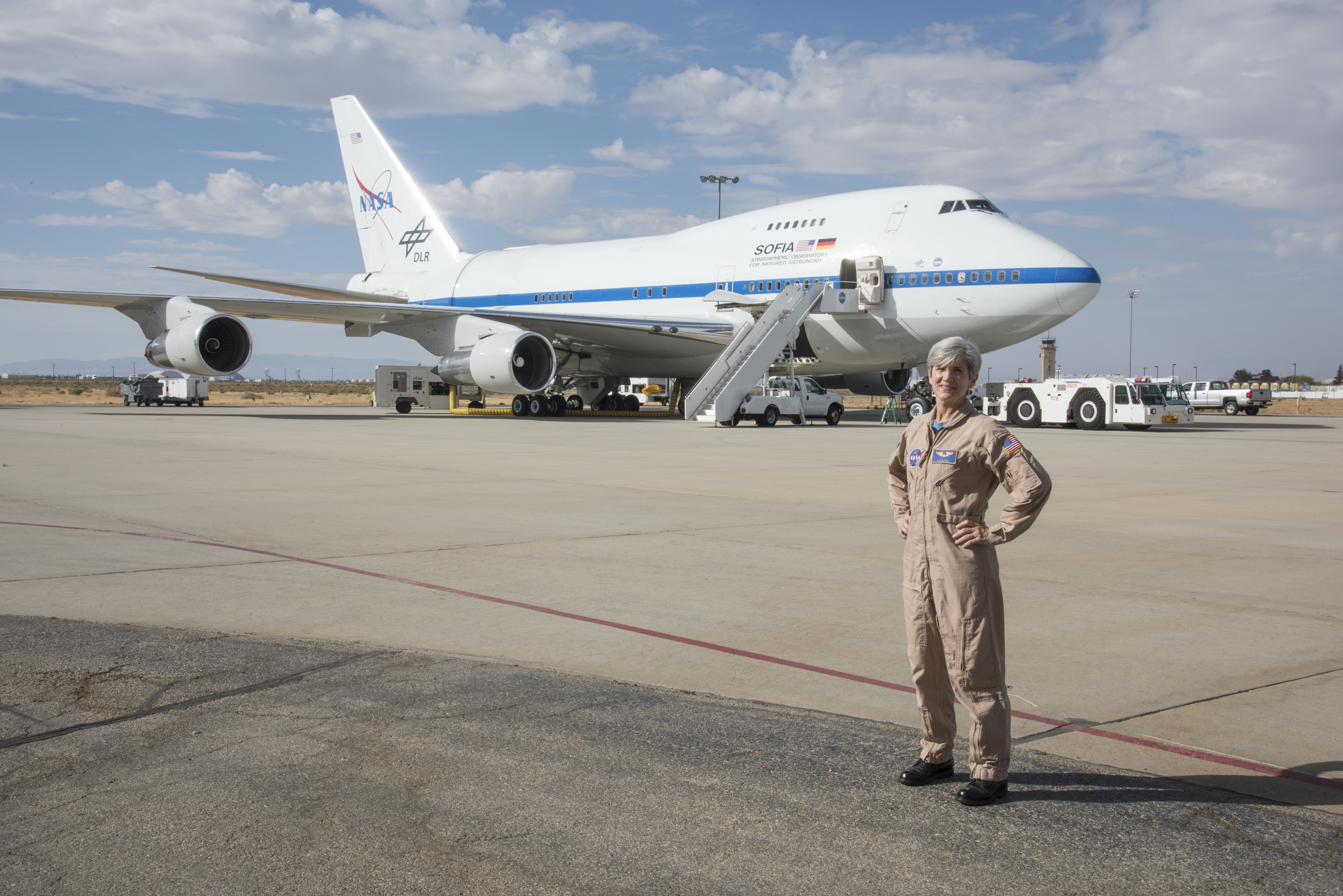 NASA research pilot Elizabeth Ruth stands in front of the Stratospheric Observatory for Infrared Astronomy (SOFIA) aircraft.